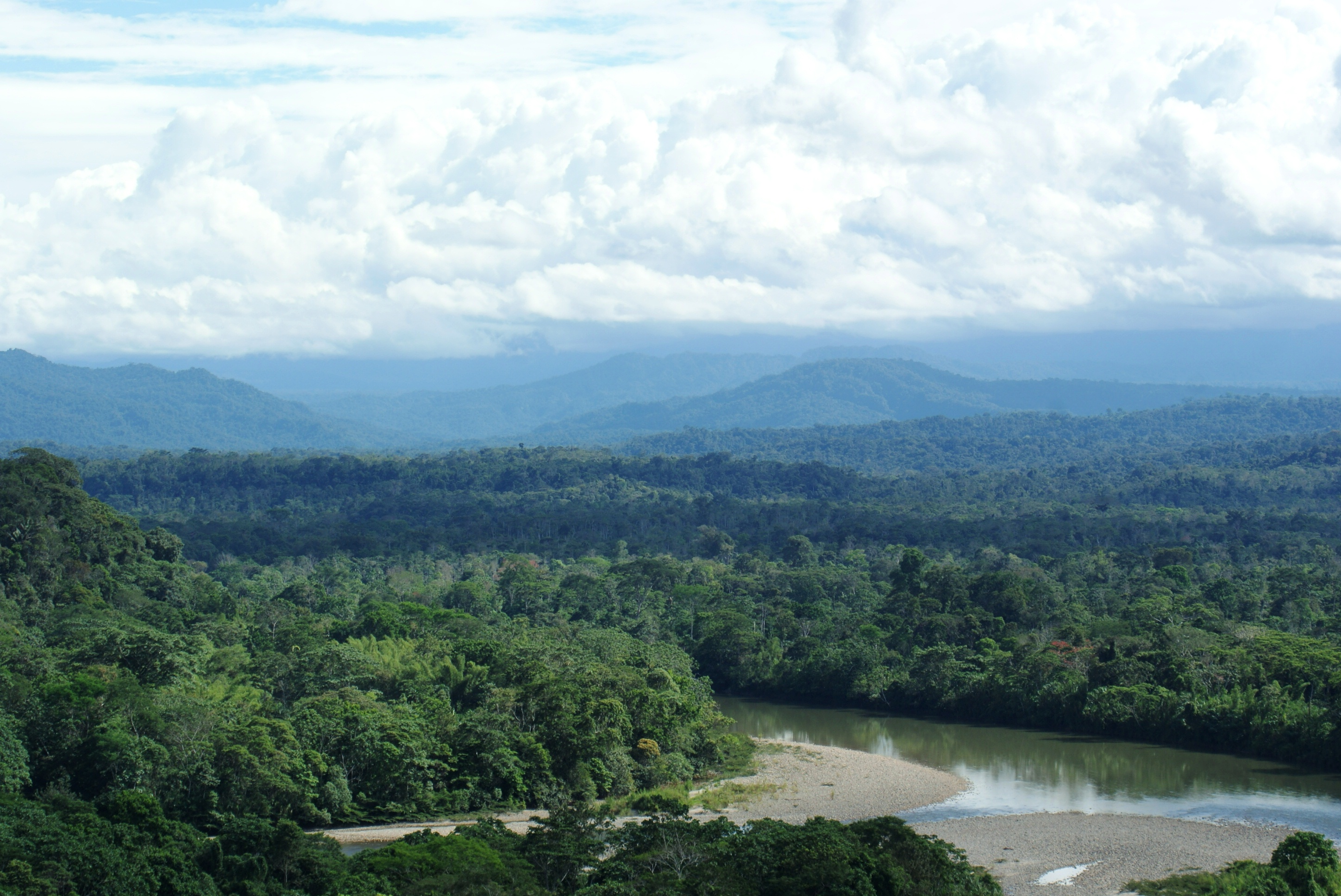 The view from our lodge.